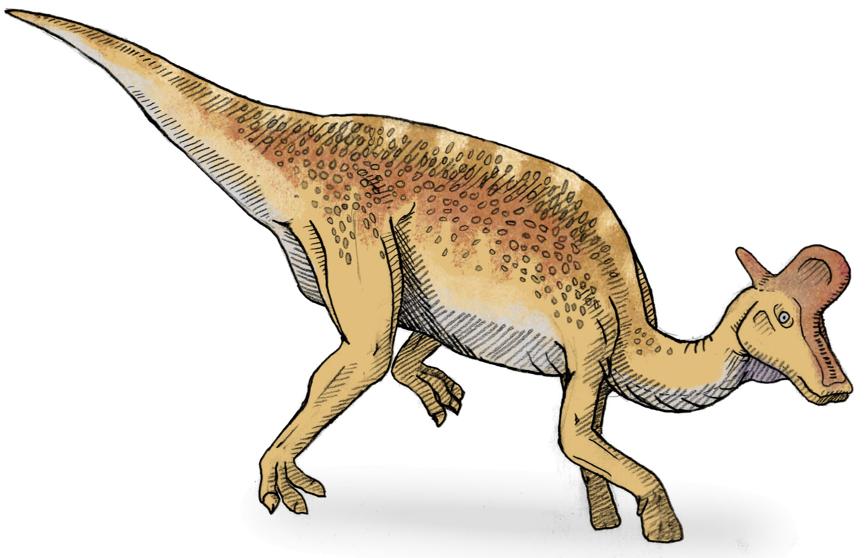 revised version of Lambeosaurus2-sketch1.jpg